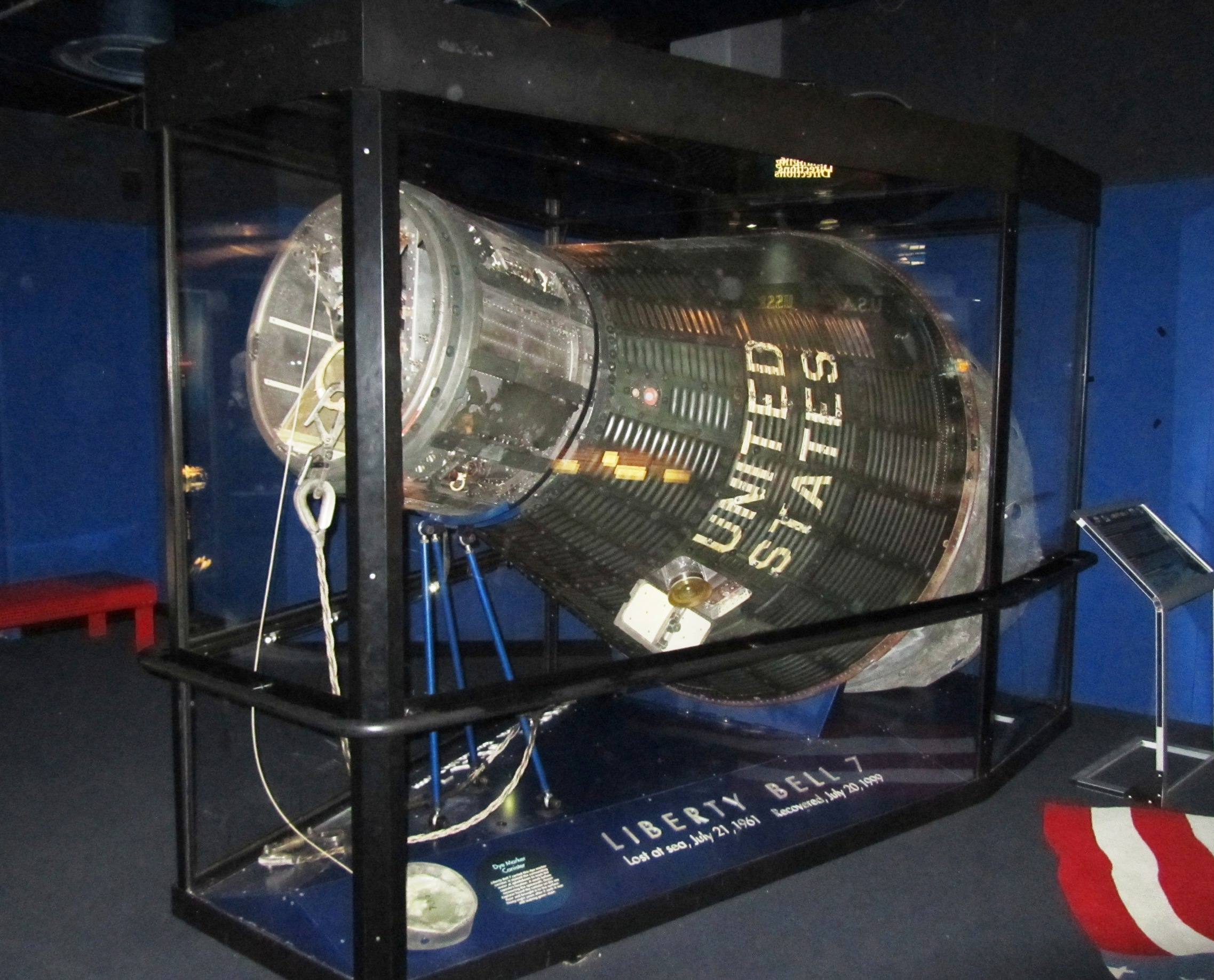 MR-4 Liberty Bell 7 The Kansas Cosmosphere and Space Center, Kansas